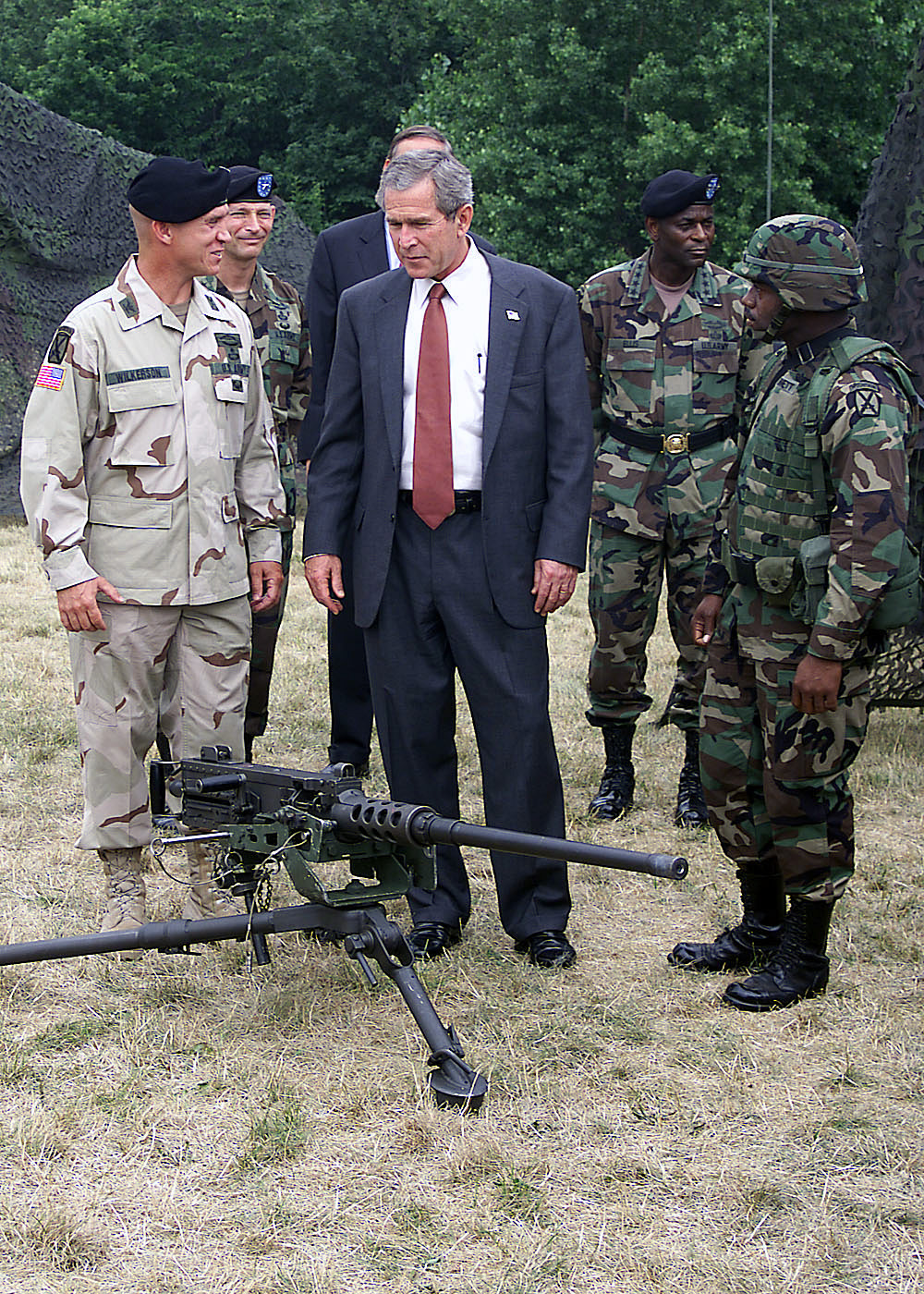 Colonel (COL) Kevin Wilkerson, USA, Commander 2nd Brigade, briefs US President George W. Bush, on the Browning 0.50 M2 HB heavy machine gun. General (GEN) Larry R. Ellis, (right center) Commanding General Forces Command stands in the background. Location: FORT DRUM, NEW YORK (NY) UNITED STATES OF AMERICA (USA